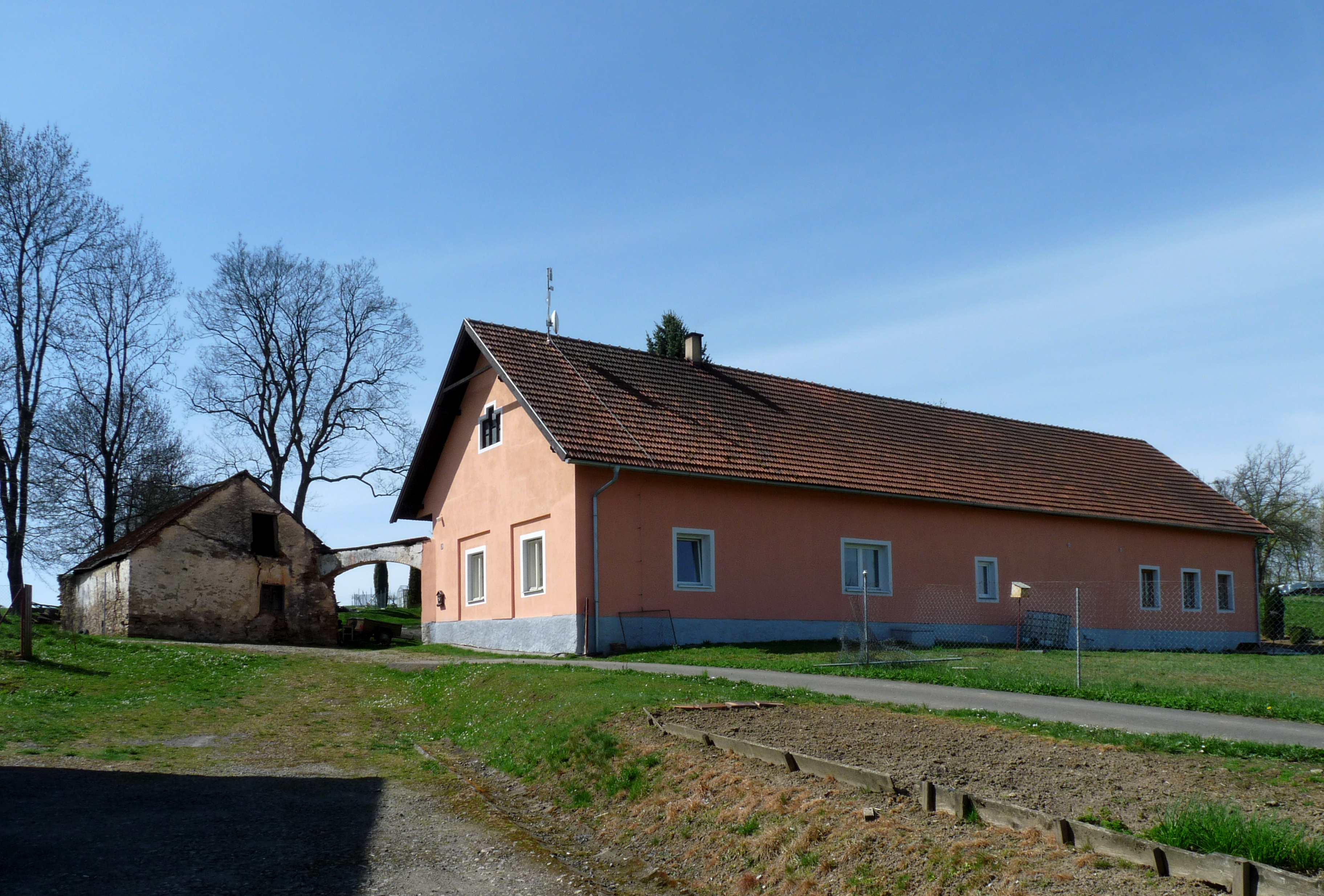 House No 19 in the village of Útěchovice, Pelhřimov District, Vysočina Region, Czech Republic.